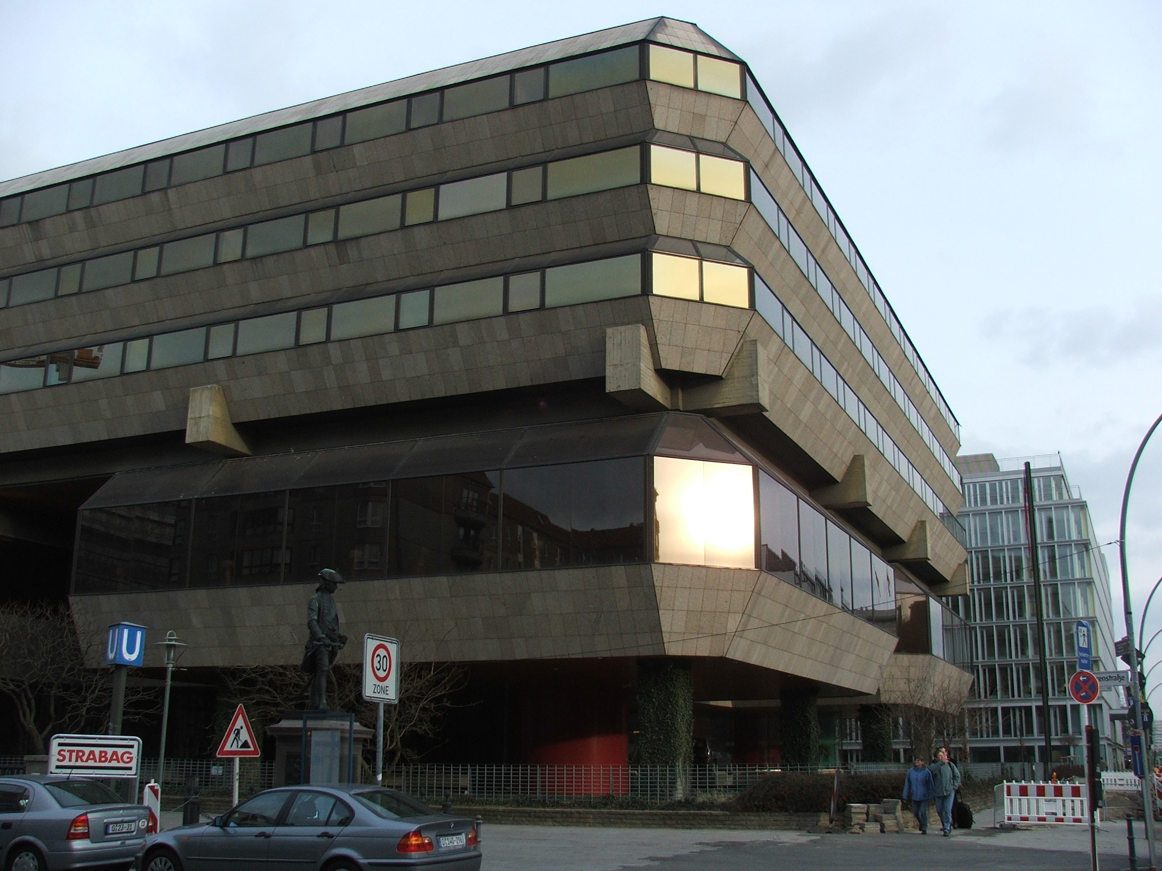 Building of the Czech Embassy in Berlin